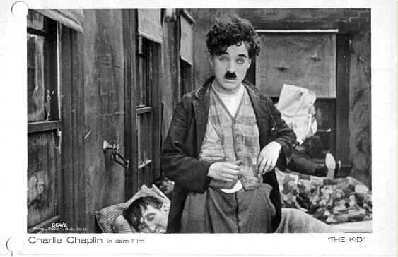 Film still from The Kid (1921) of Charles Chaplin for Charles Chaplin Productions